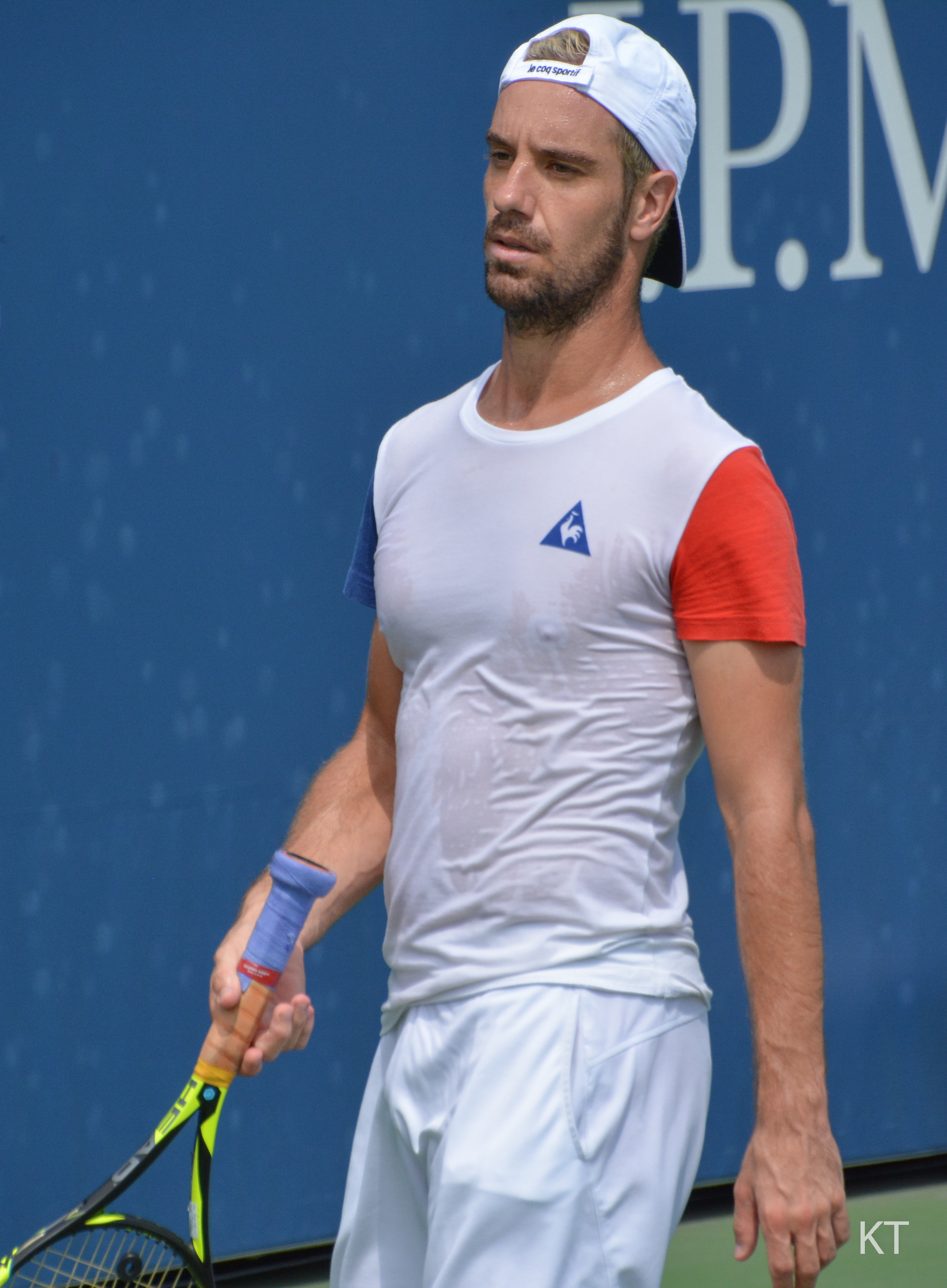 Practice Sunday at the US Open 2018.